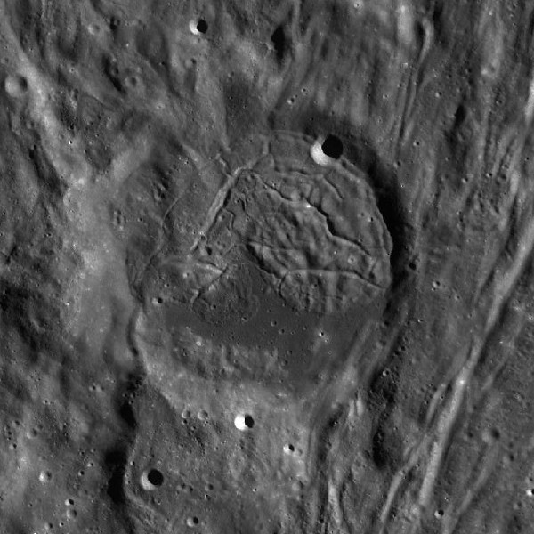 Fényi crater, on the far side of the moon. Mosaic of LRO WAC images. Aspect ratio adjusted from Mercator Projection.